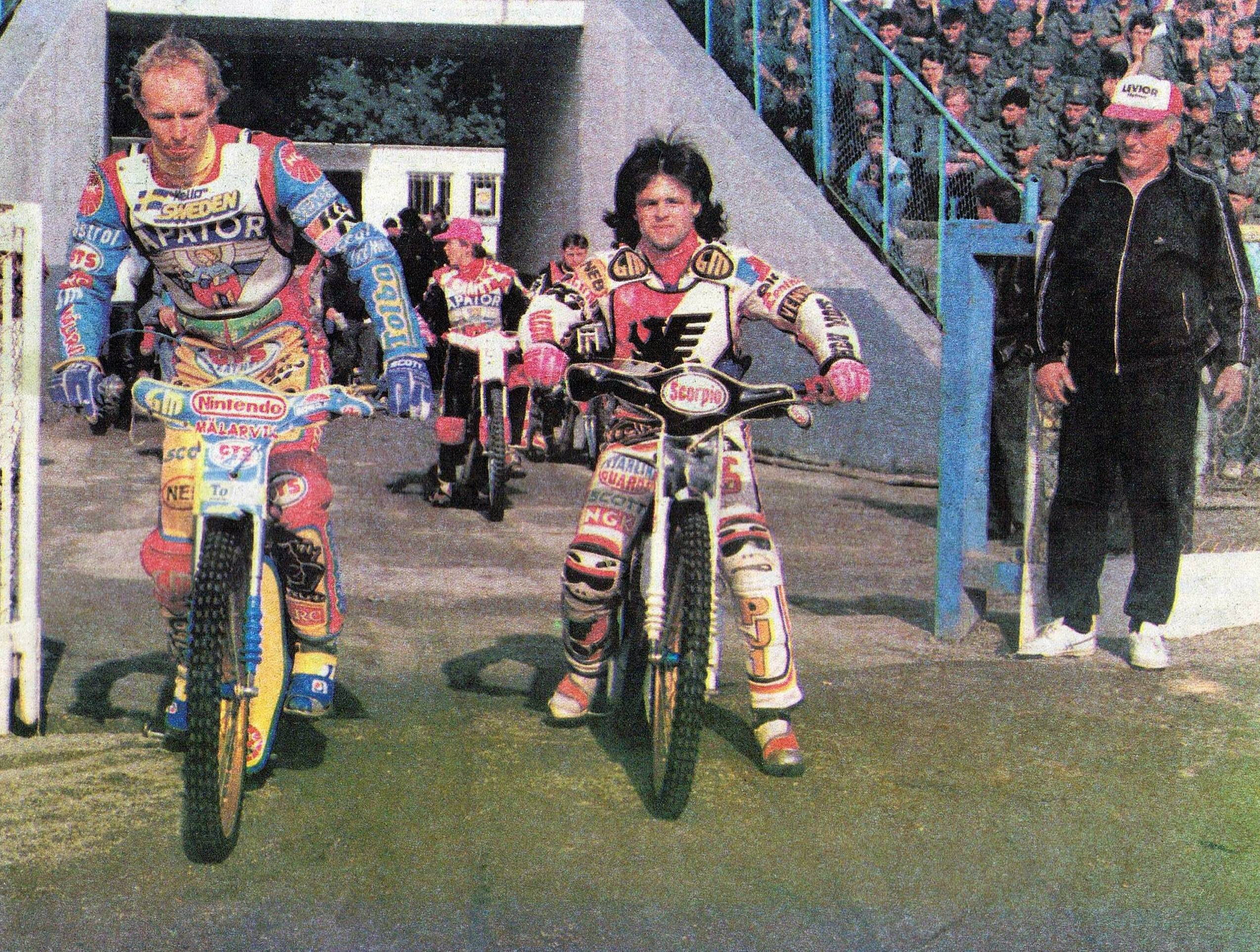 Per Jonsson (SWE) and Andy Smith (ENG). Speedway riders.